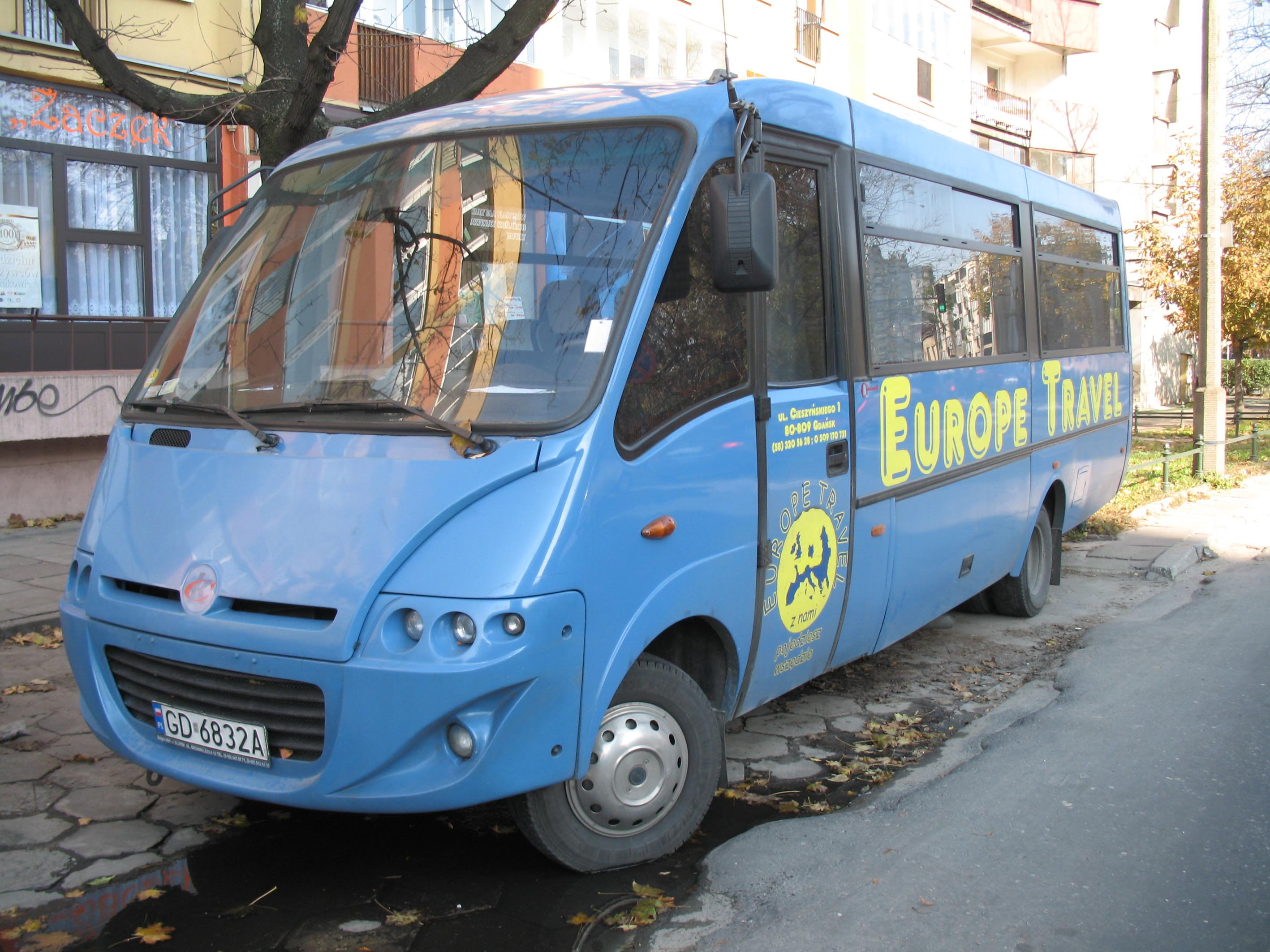 Kapena Thesi Intercity bus based on Iveco Daily 65C Mk3 in Kraków, Poland. Built 2004, Europe Travel from Gdańsk company.